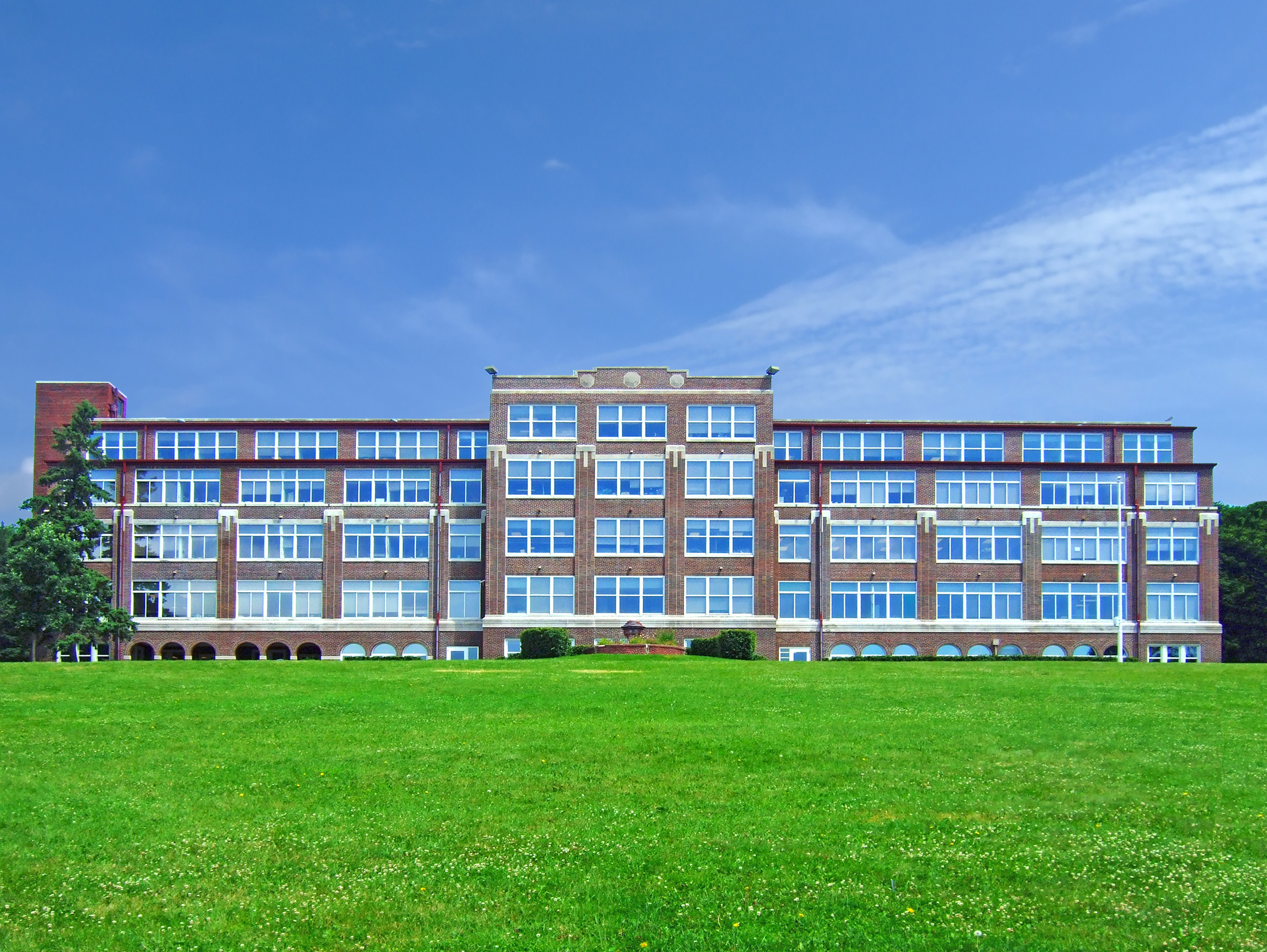 The Lake View Sanatorium at 1204 Northport Drive in Madison, Wisconsin, was constructed in 1929-30 as a tuberculosis sanatorium and general hospital for Dane County. Designed by architect E. A. Stubenrauch in the Art Deco style, the 66,000-square-foot facility accommodated 100 tuberculosis patients in an attractive setting that afforded abundant fresh air and sunshine while isolating them from the general population. It was located near the top of Lakeview Hill, which at 1017 feet is the second highest point in Dane County (surpassed only by Blue Mound State Park). In keeping with advances in medicine, the sanatorium was phased out of service by 1966. The main building now houses licensing, clinical, and welfare services of the Dane County Department of Human Services. In 1987, the Madison Landmarks Commissions turned down a proposal to designate the sanatorium as a Madison Landmark. It was added to the National Register of Historic Places in 1993, and in 2006 the surrounding park was placed in permanent conservancy, preserving it for public use.